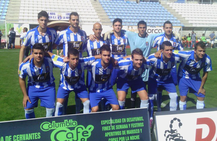 Lorca Deportiva 1